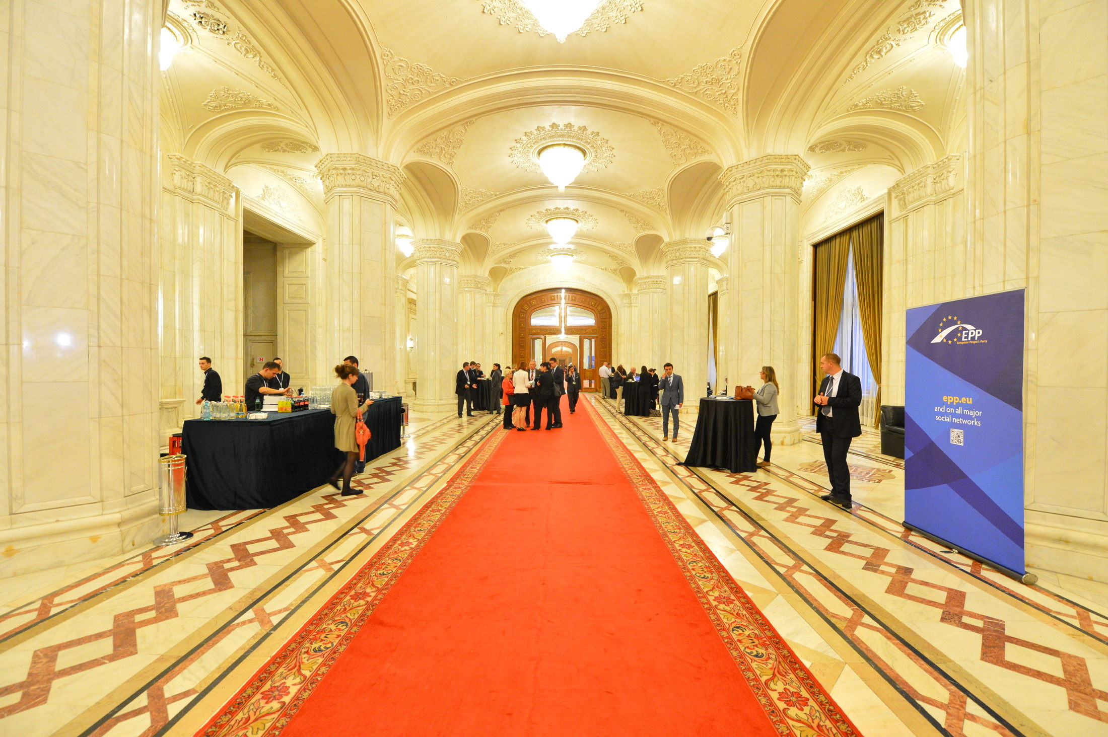 EPP Congress 2012. Day 1